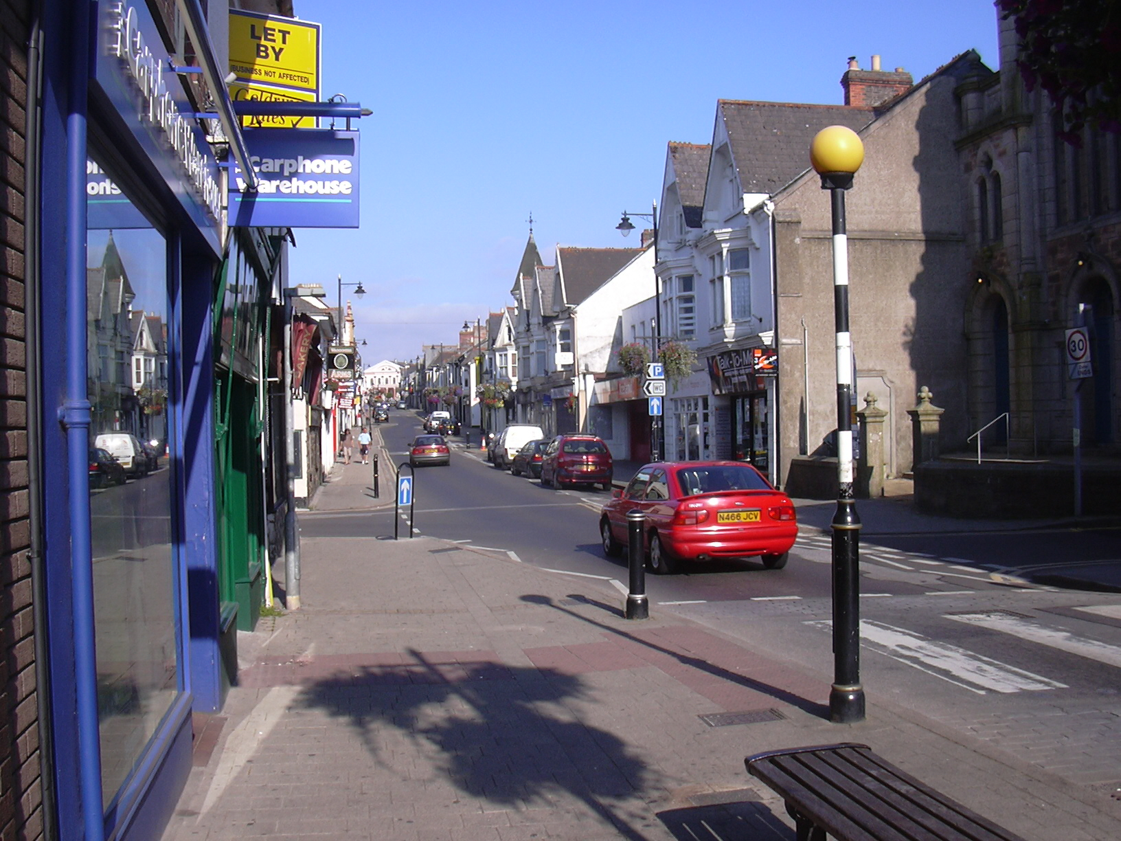 Trelawarren Street, Camborne